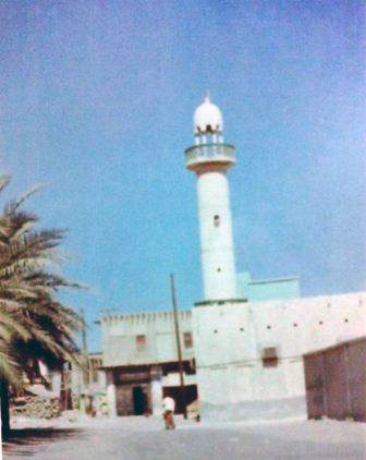 Shikh Mohammad Mosque 25 years ago